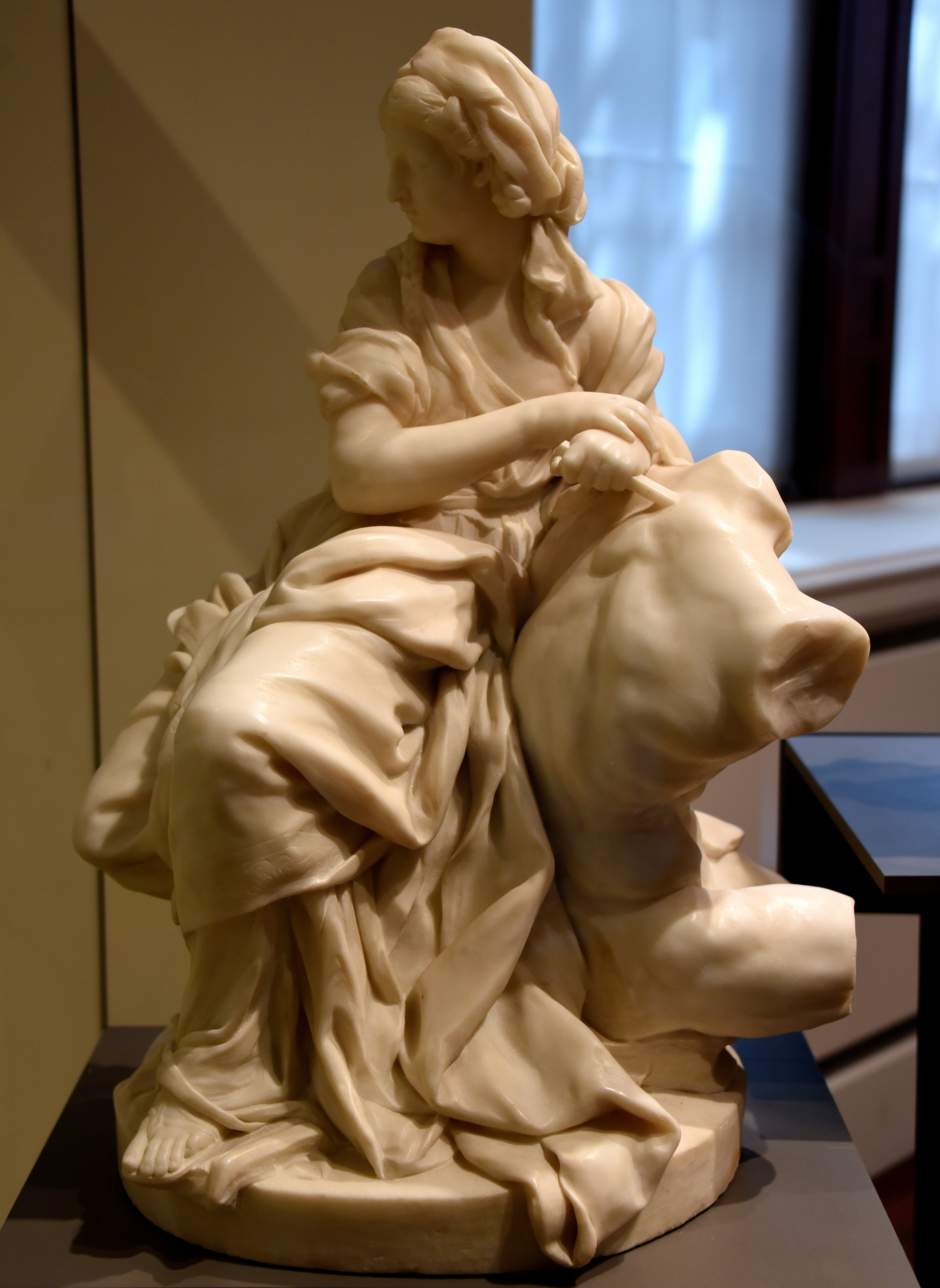 The Allegory of Sculpture Statue, 1746 CE, by Etienne-Maurice Falconet. Marble, from Paris, France. The Victoria and Albert Museum, London.